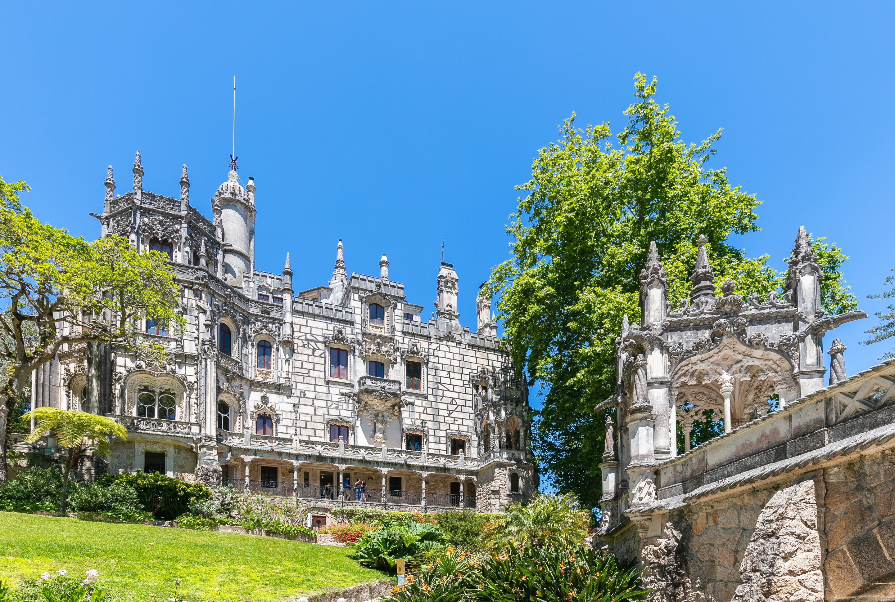 Quinta da Regaleira, Sintra, Portugal